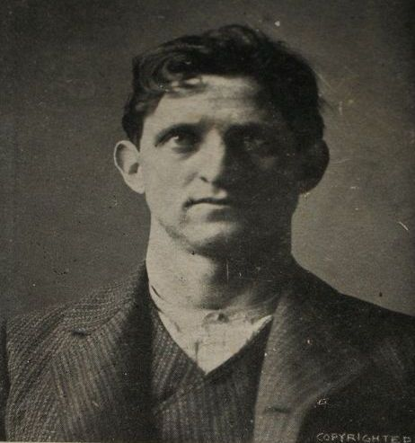 Jack Biddle of the "notorious" Biddle Brothers